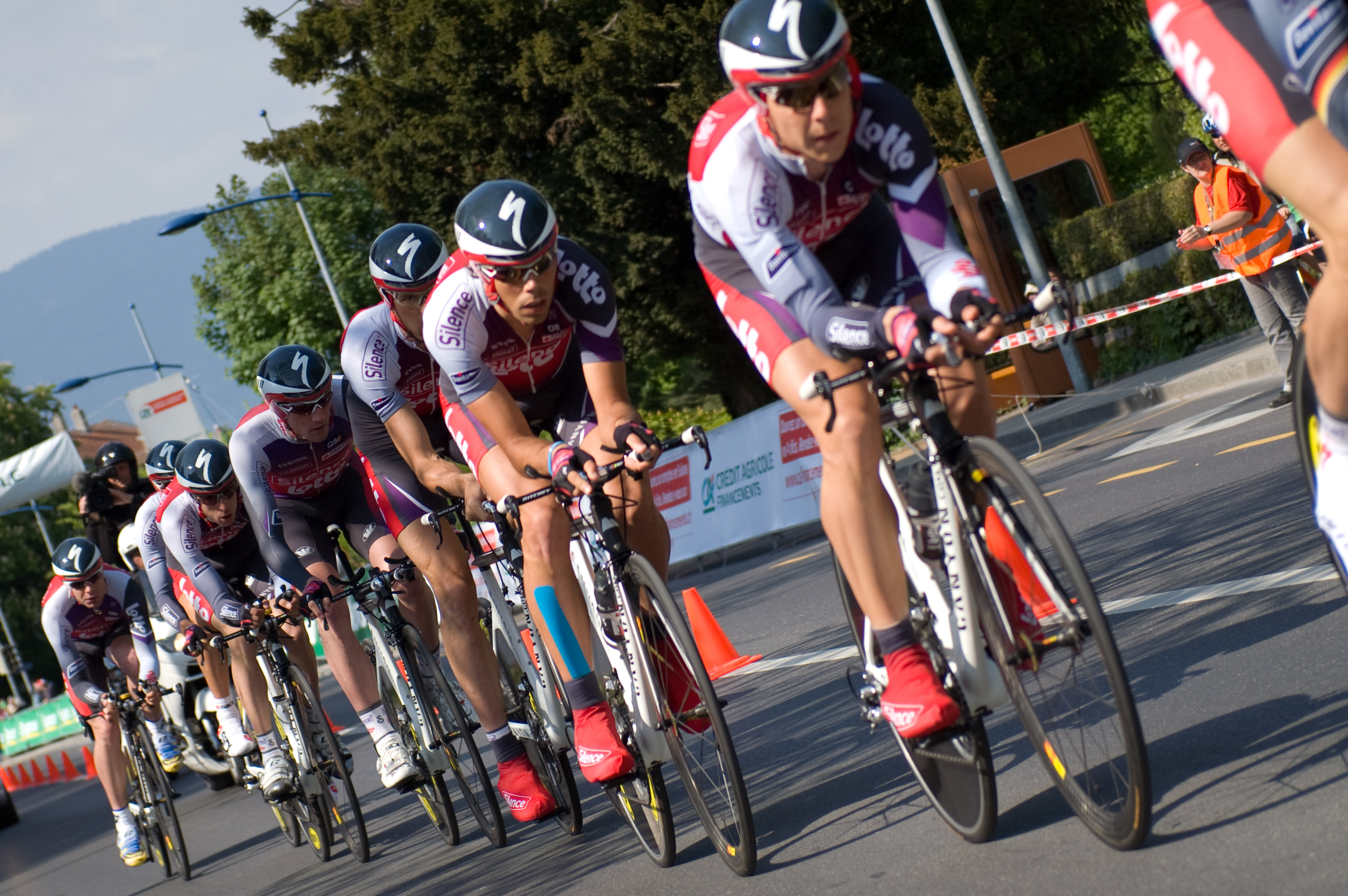 Tour de Romandie 2009 - 3rd stage - team time trial